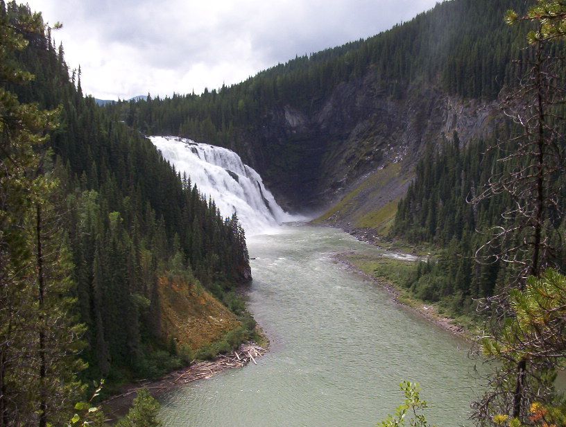 Kinuseo Falls, British Columbia, Canada. Taken from Murray River overlook about 1.5 km downstream from the falls.